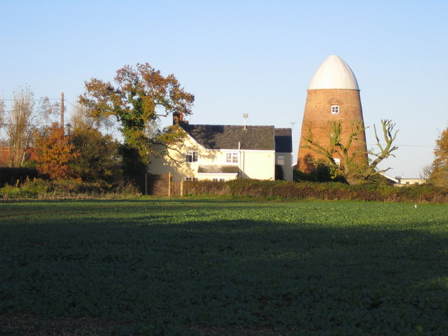 The house converted North Mill, Clavering, Essex.